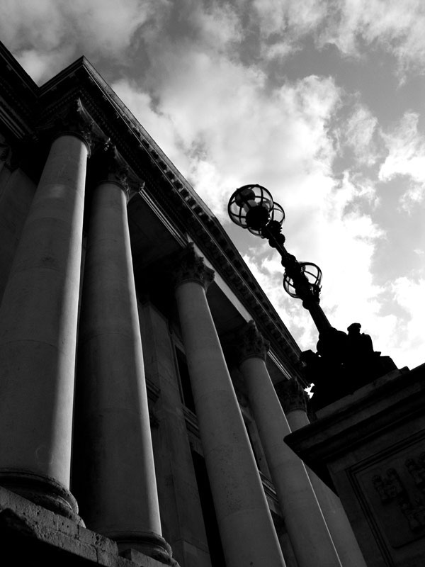 City Hall.Dublin.Ireland Author:Alatryste